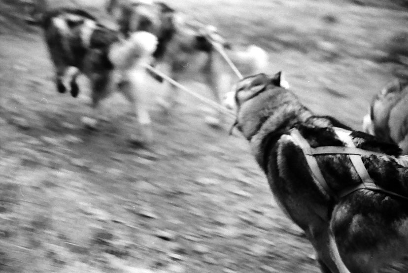 Dogsled racing with Siberian Huskies